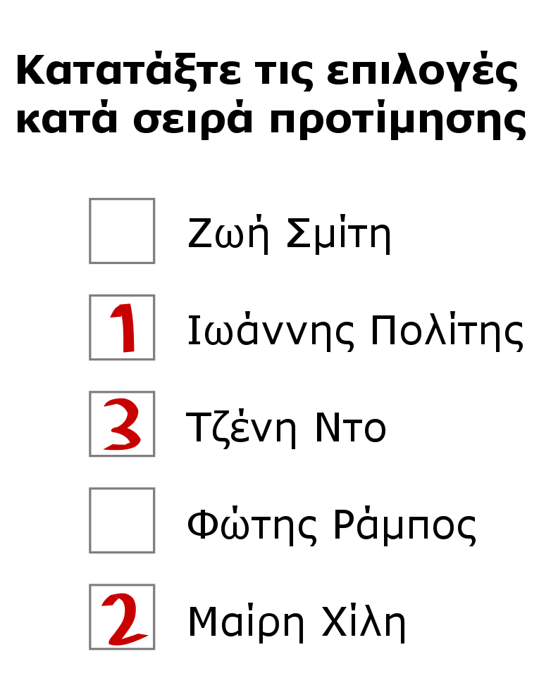 Translation of File:Preferential ballot.svg